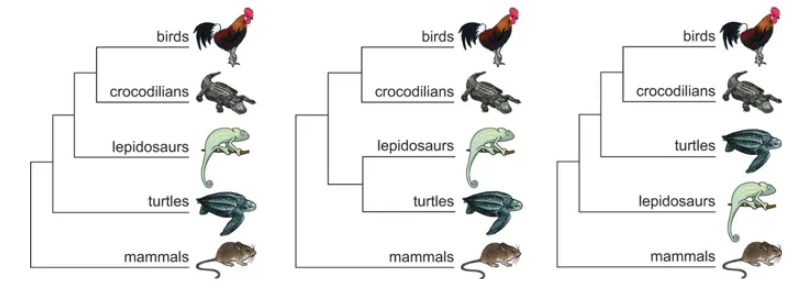 Three different hypotheses for phylogetic position of Turtles clade